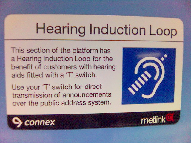 A sign in a train station advising travellers that the public announcement system broadcasts with a hearing induction loop, to allow travellers with a hearing aid to tune into announcements directly with their hearing aid's receiver.